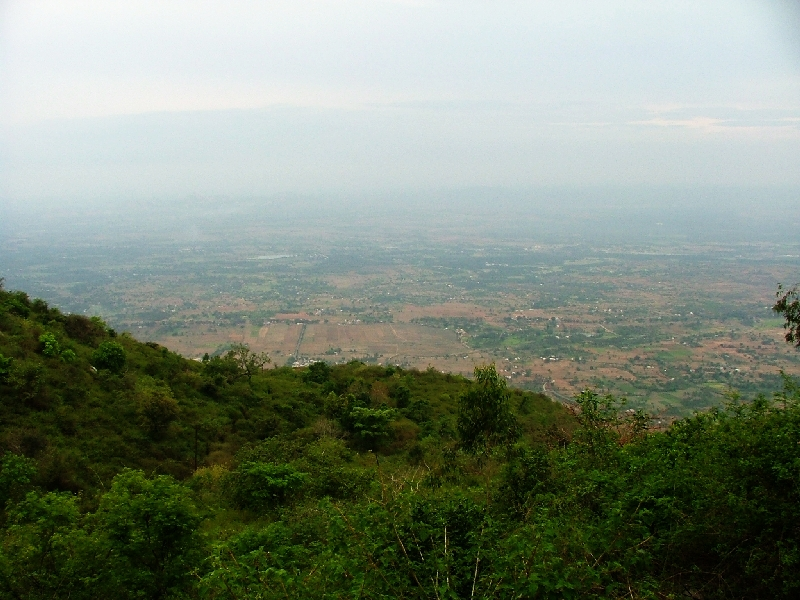 Yelagiri - the Musk Mountains